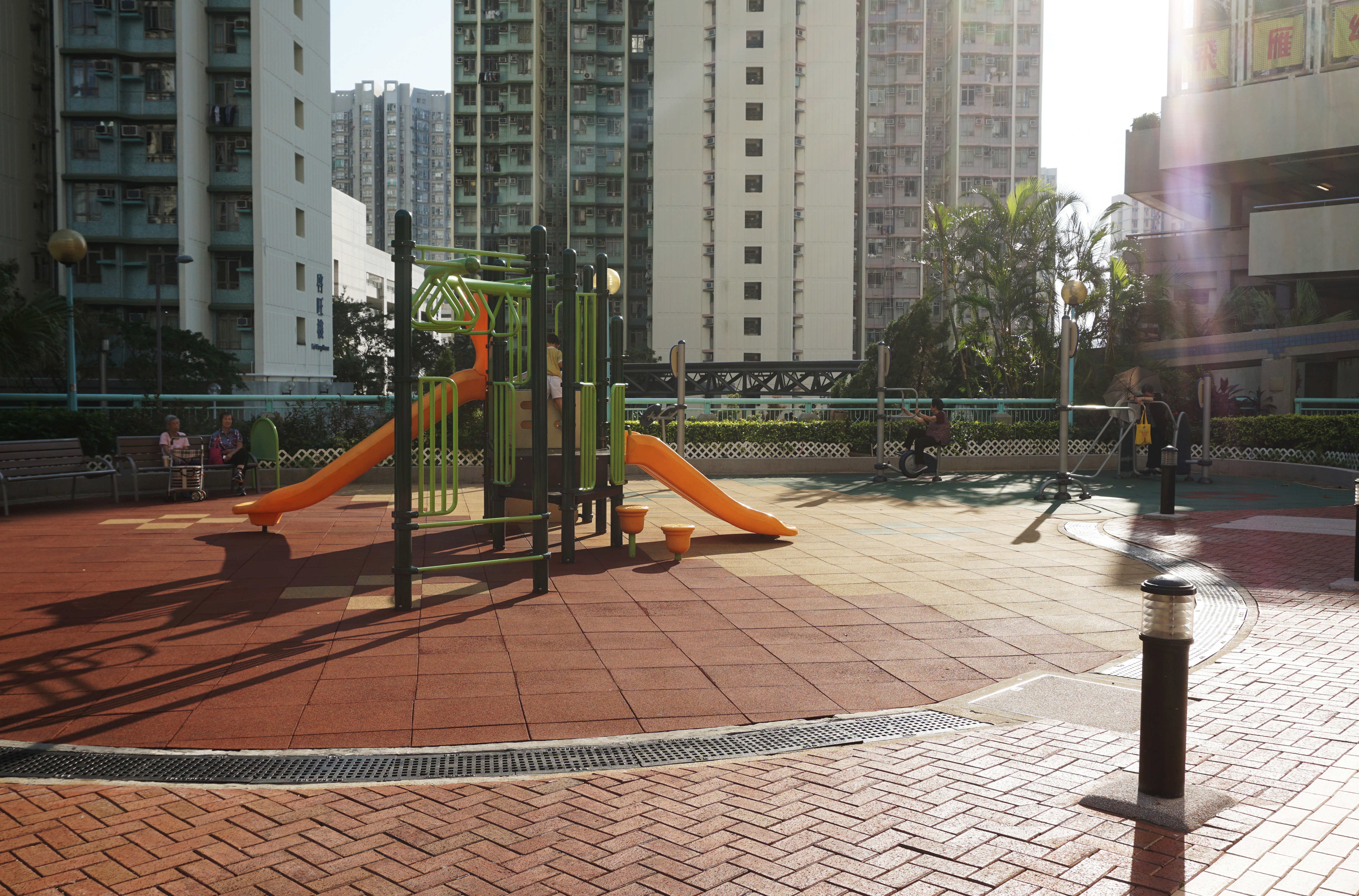 Hong Yat Court in Lam Tin, Hong Kong.